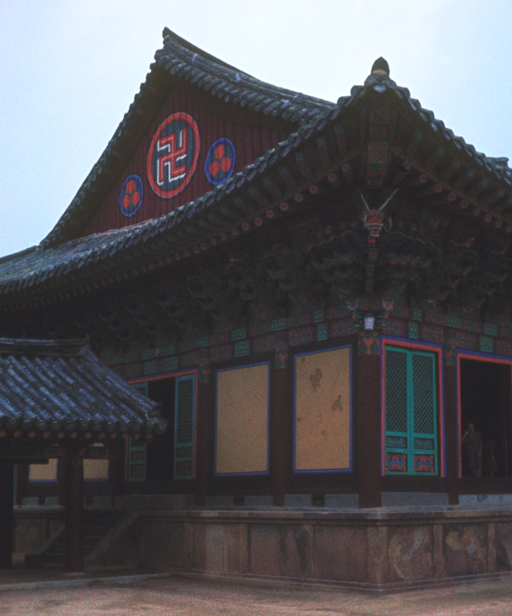 The temple of Bulgugsa in Korea on 21 Jul 1974. Picture taken and uploaded by Roger McLassus.